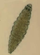 Stainton’s Natural History of the Tineina (1855–1873): Ochromolopis ictella